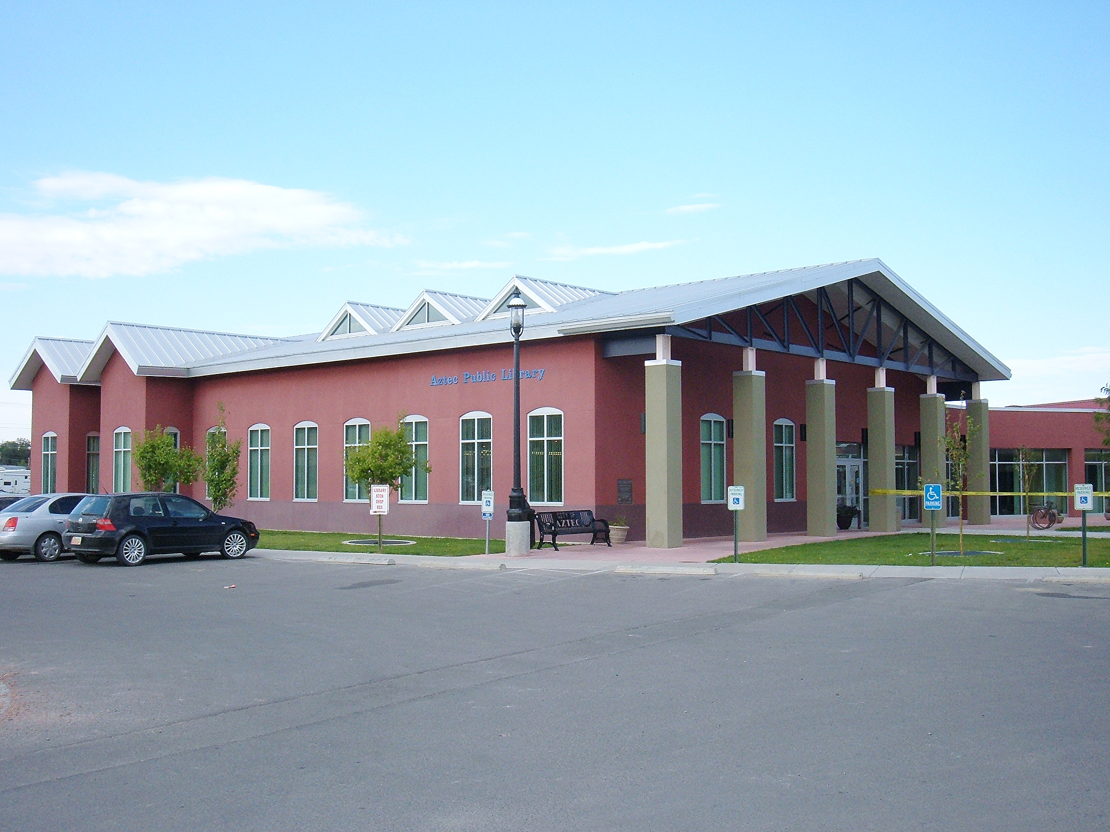 Aztec Public Library in Aztec, New Mexico. Built in 2005.